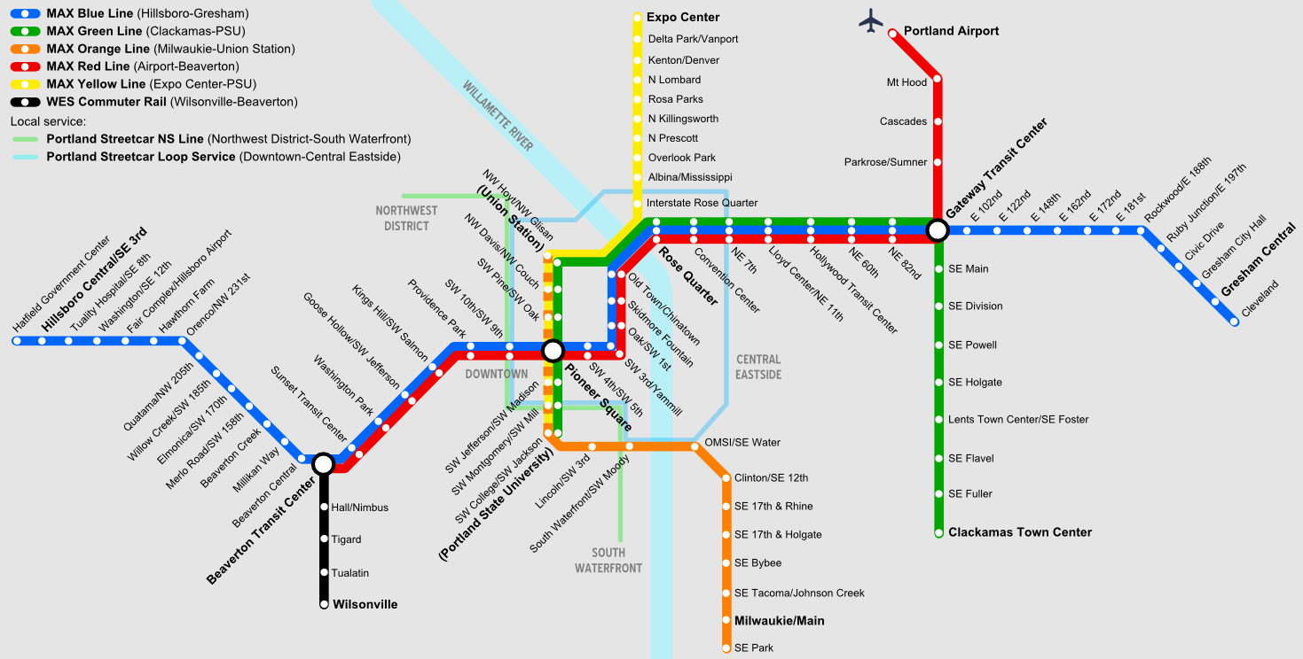 Map of rail systems in Portland, including MAX light rail, Portland Streetcar, and WES Commuter Rail. SVG version can be found at File:Portland rail map.svg